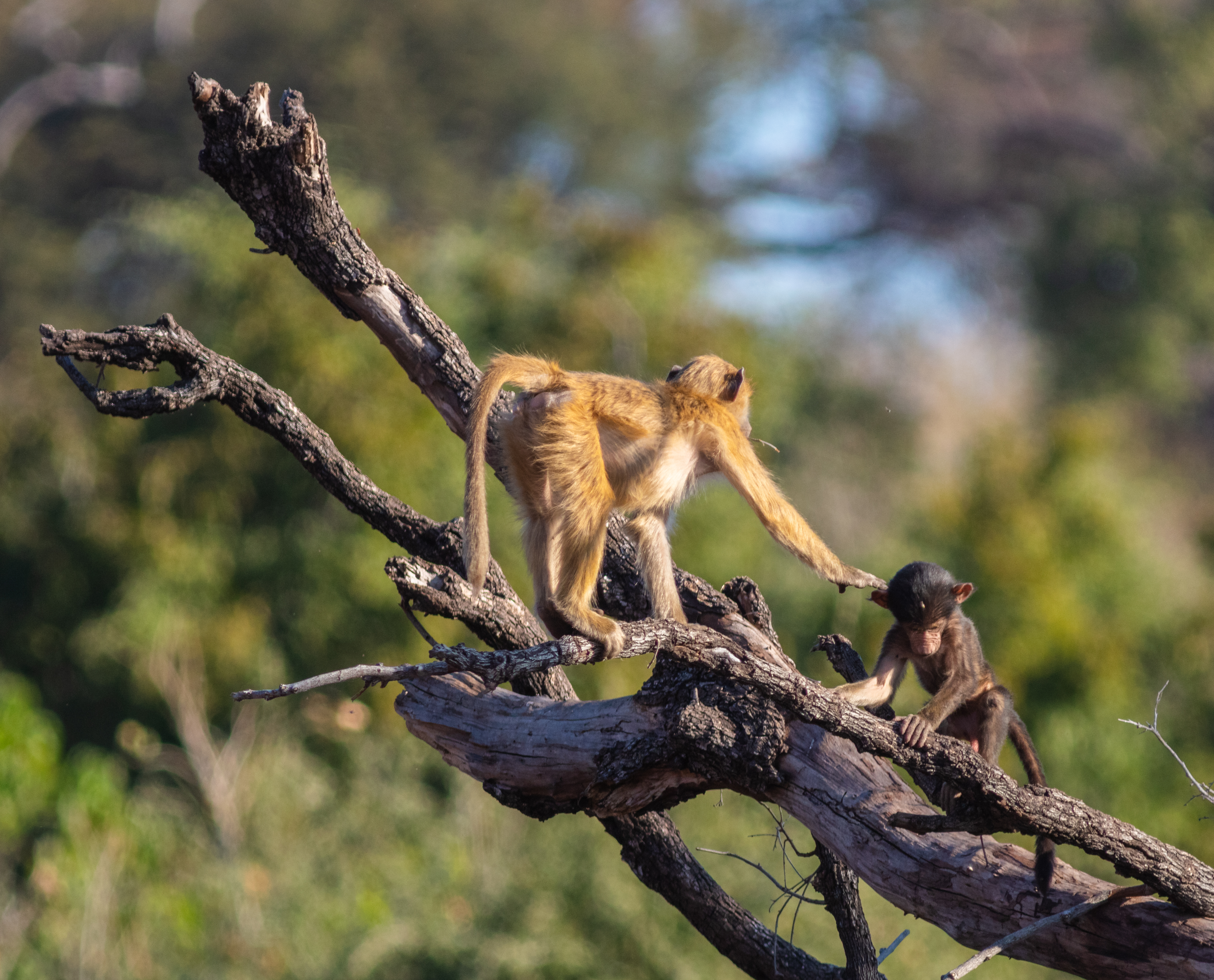 Chacma baboon (Papio ursinus), Chobe National Park, Botswana